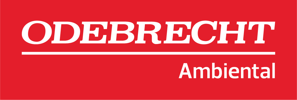 Odebrecht Ambiental logo